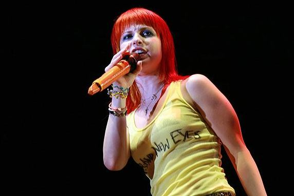 Hayley Williams performing live on the Honda Civic Tour July 2010.